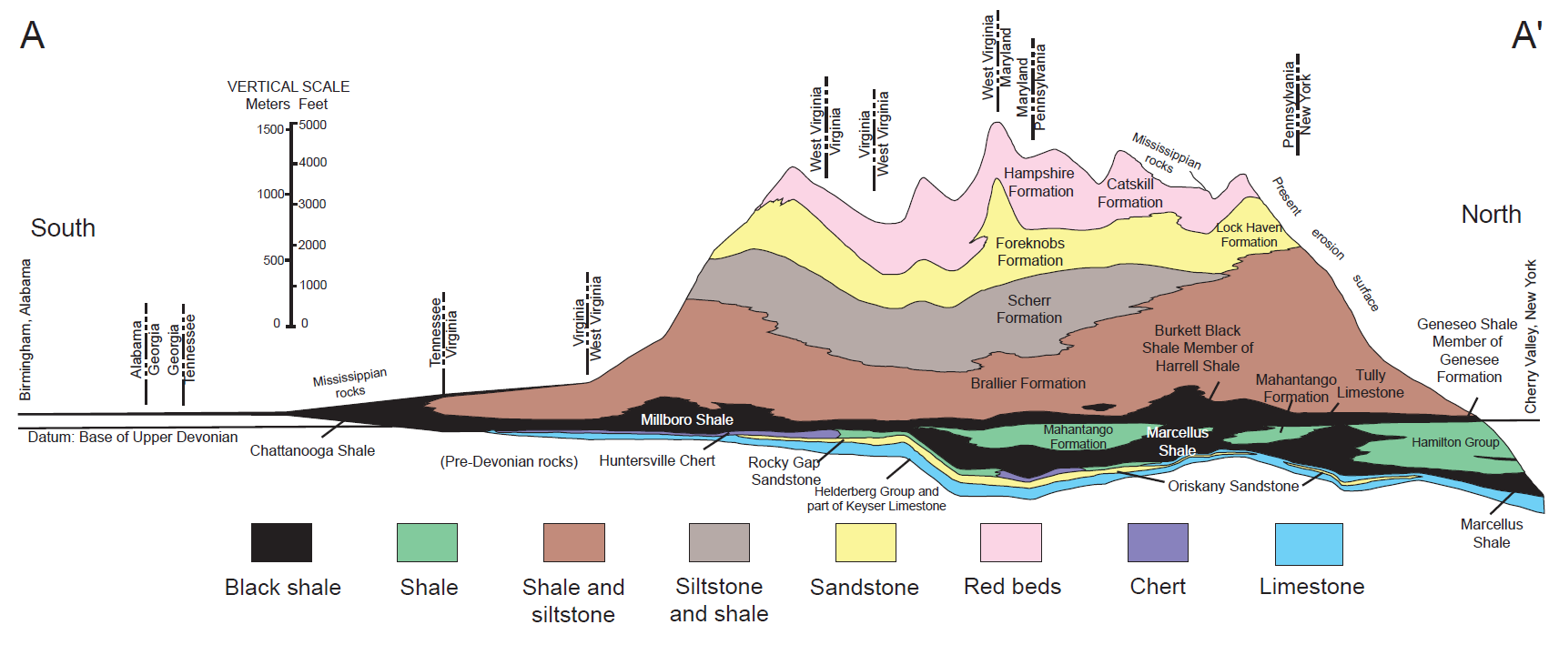 Geologic cross section of Devonian strata from New York to Alabama (after de Witt 1975). A generalized section transverse through the Catskill delta (generally along depositional strike)